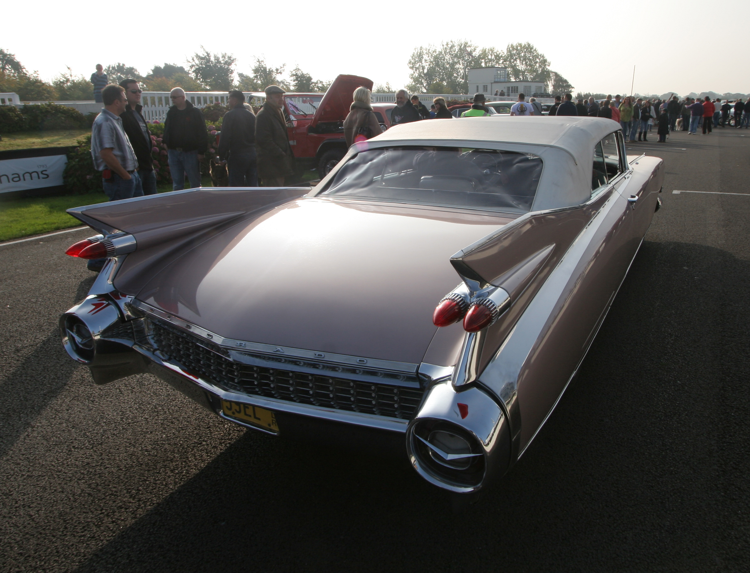 The Cadillac Eldorado was the longest running American personal luxury car as it was the only one sold after the 1998 model year.